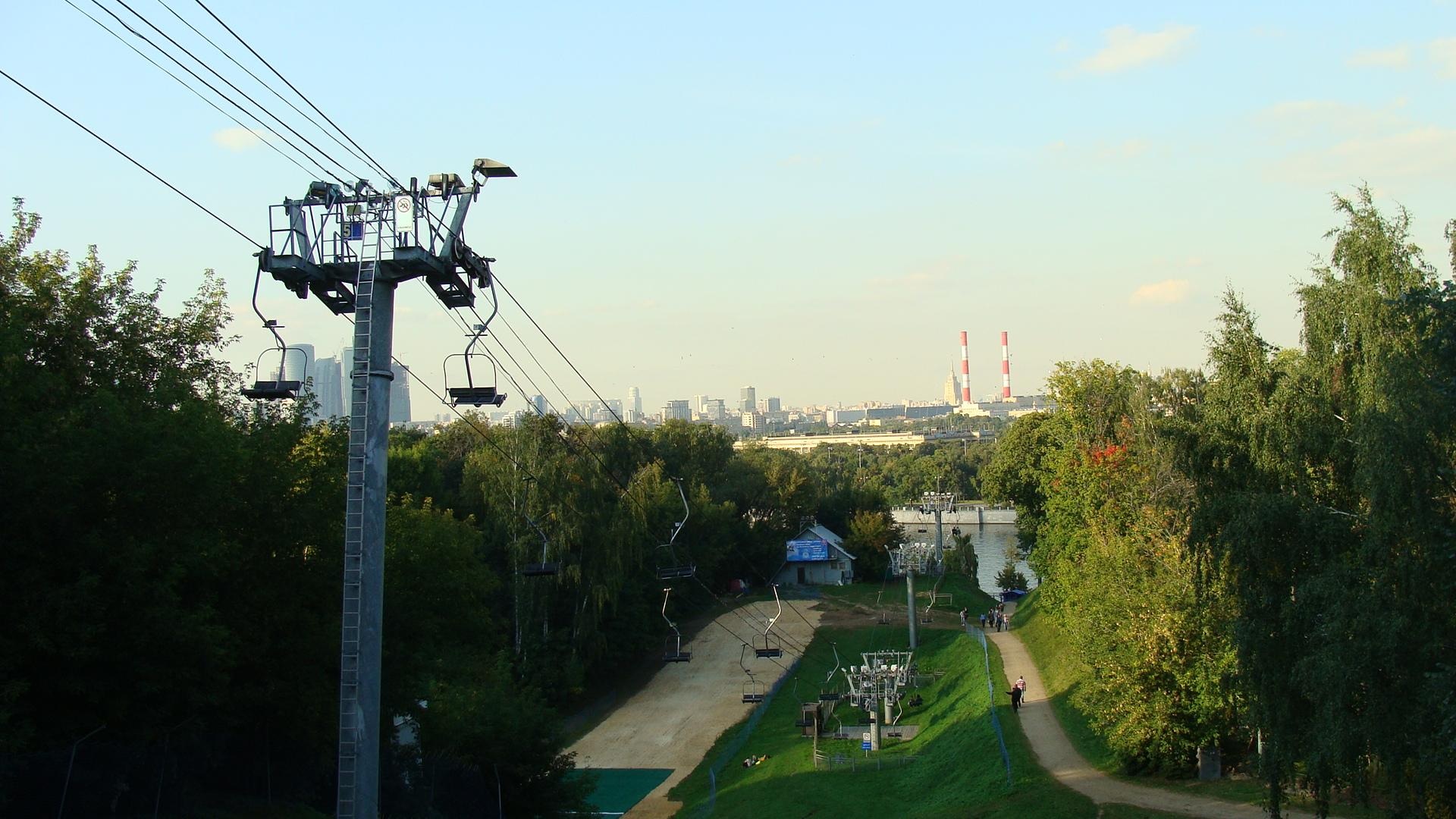 View of Moscow from the Sparrow Hills